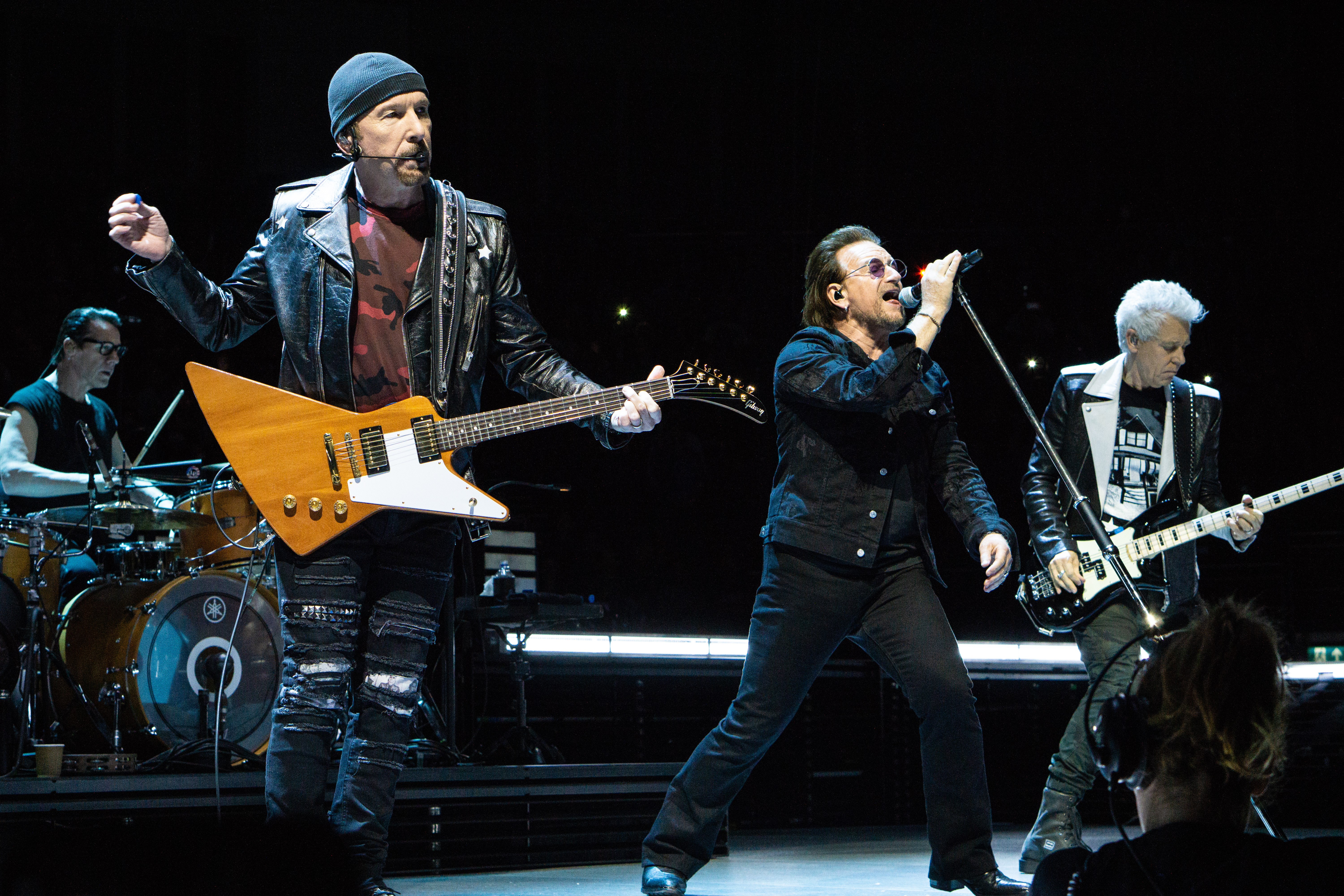 Irish rock band U2 performing at The O2 in London, England on October 24, 2018 on their Experience + Innocence Tour